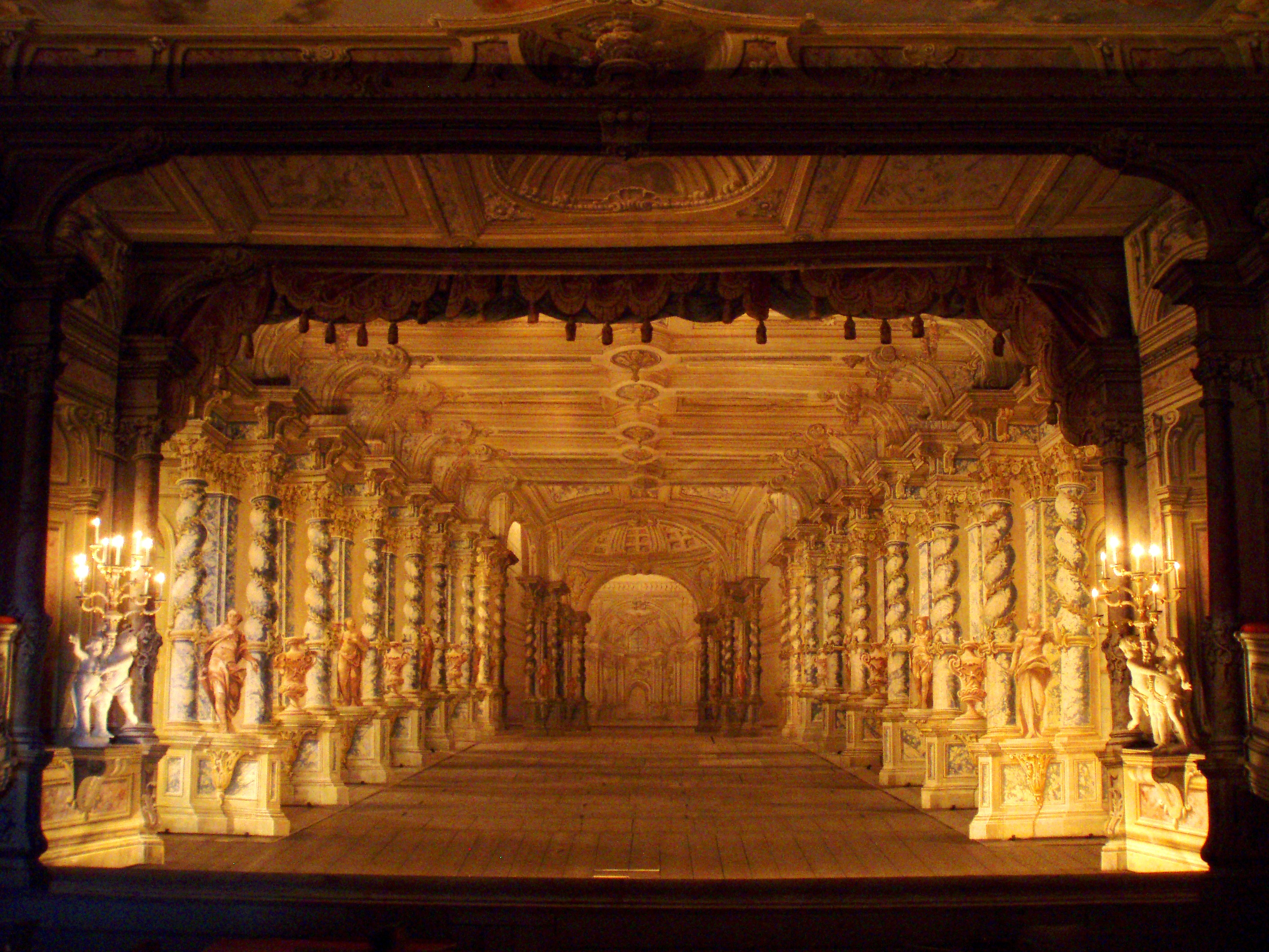 The stage at the Castle Theatre, Cesky Krumlov.